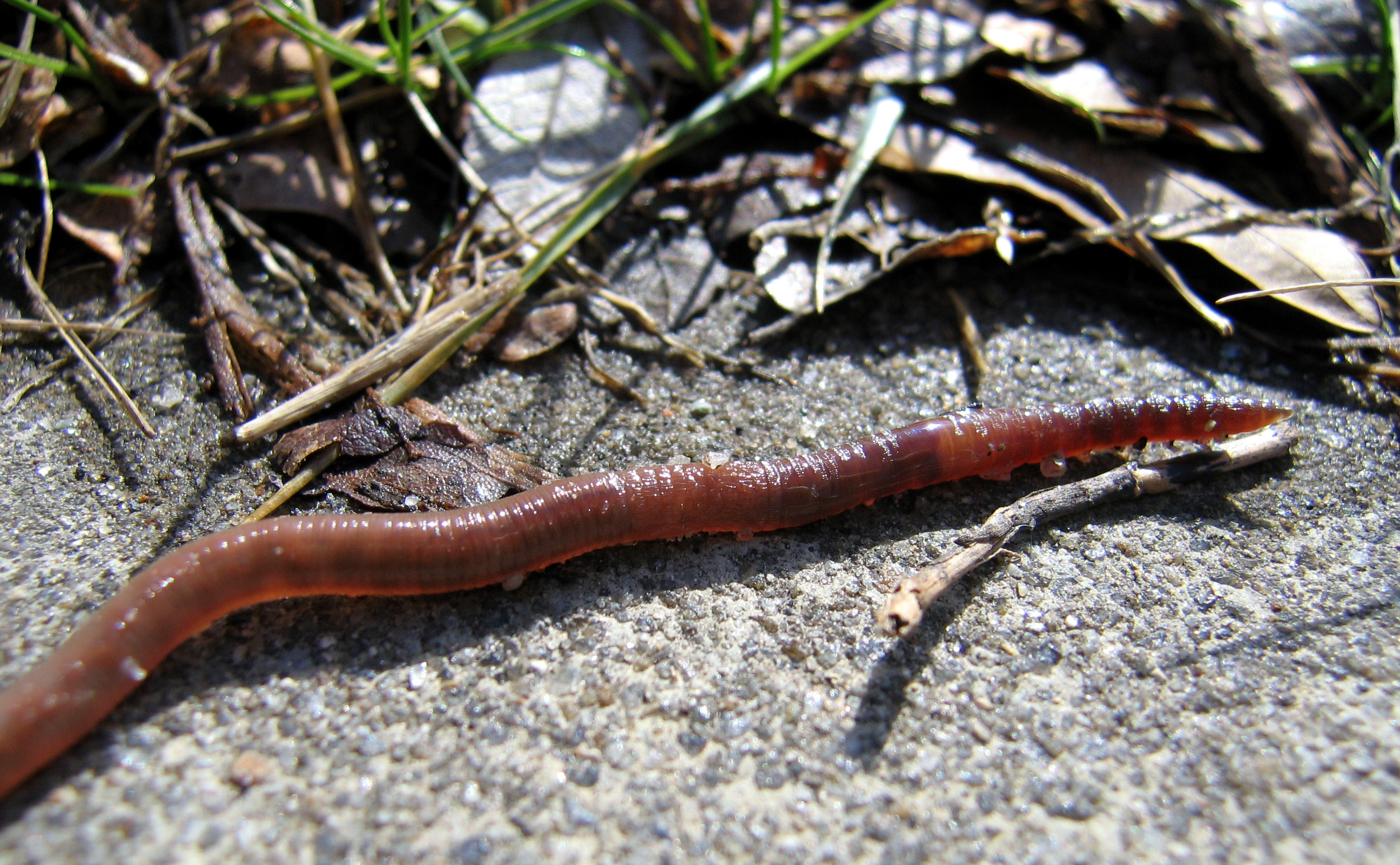 earthworm on ground (stone/concrete) in Durham (North Carolina). It is a adult Lumbricus terrestris probably on a mild day in winter.